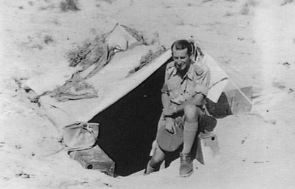 EL ALAMEIN AREA, WESTERN DESERT (EGYPT). Captain Alec J. Hill, NX380 of Headquarters 20th Infantry Brigade, outside his covered dugout (doover or dingus). He described it as having "ants, beetles, an occasional scorpion and a mouse".